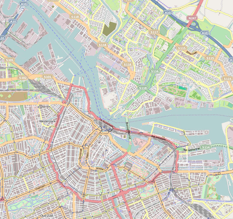 Map of Amsterdam Geographic limits of the map: N: 52.4145° S:52.3527° W: 4.8521° E: 4.9598°